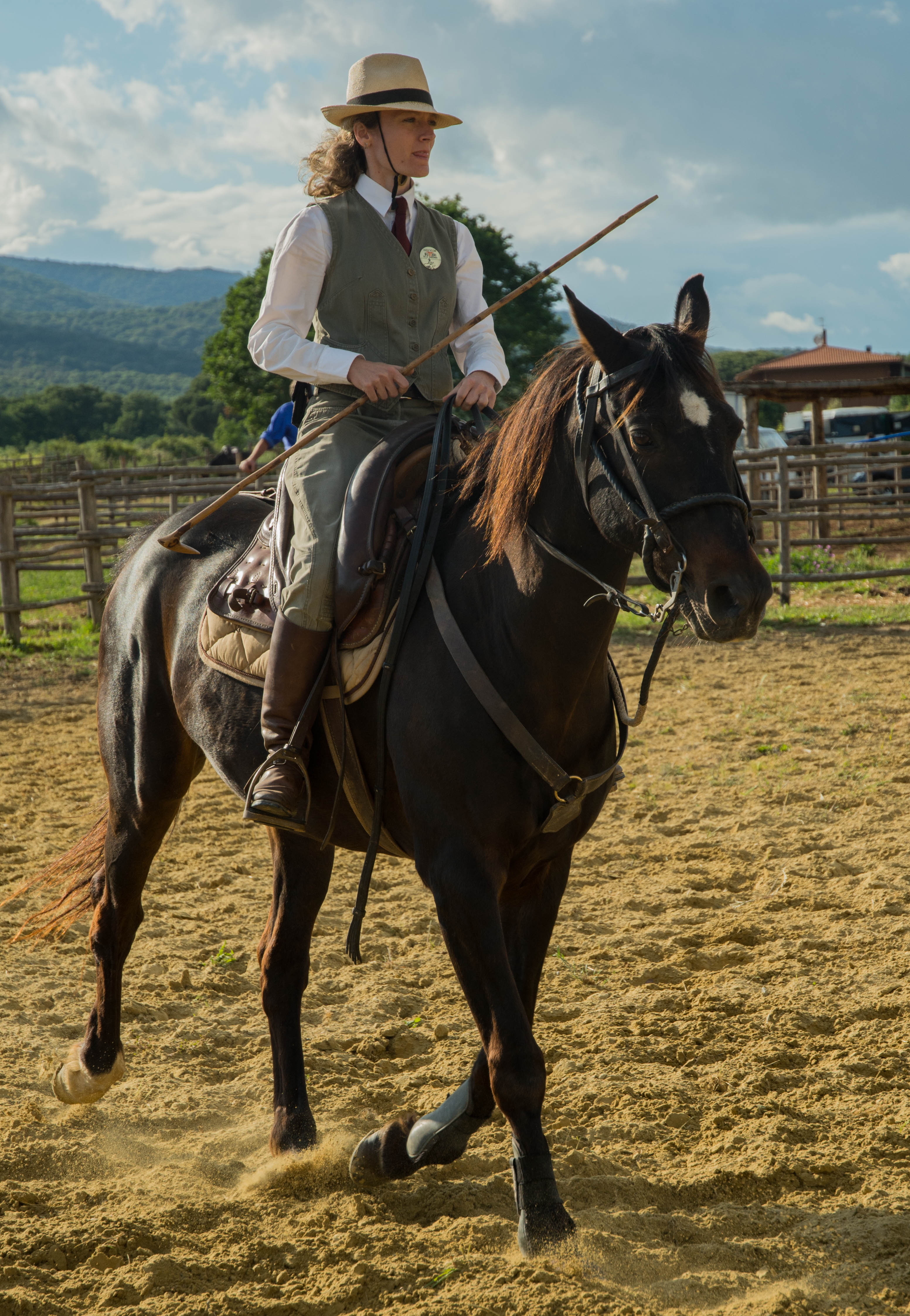 A female buttero from southern Tuscany, riding a Maremmano horse.